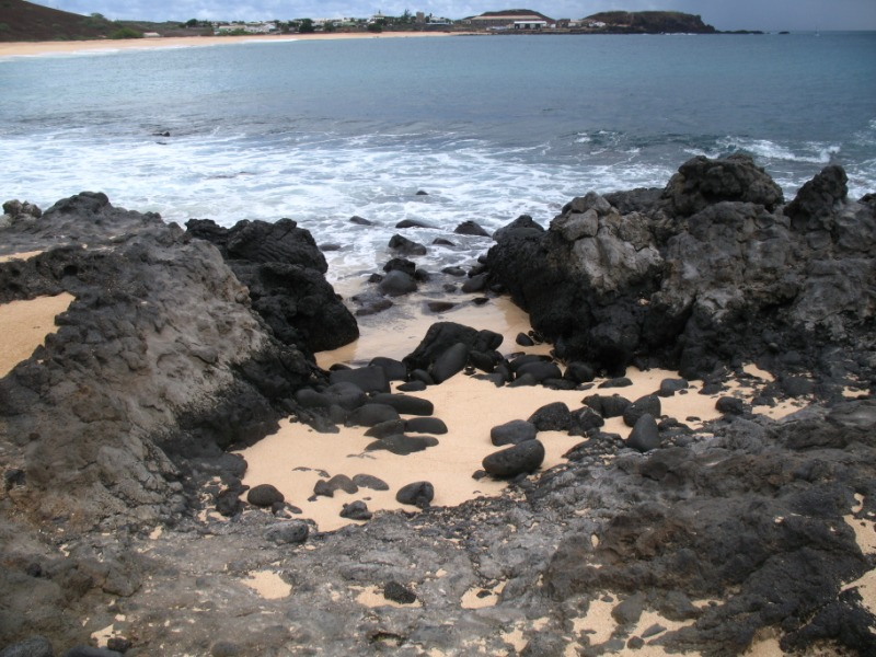 Black igneous rocks (volcanic) on Ascension Island